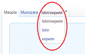 uzwiki converter